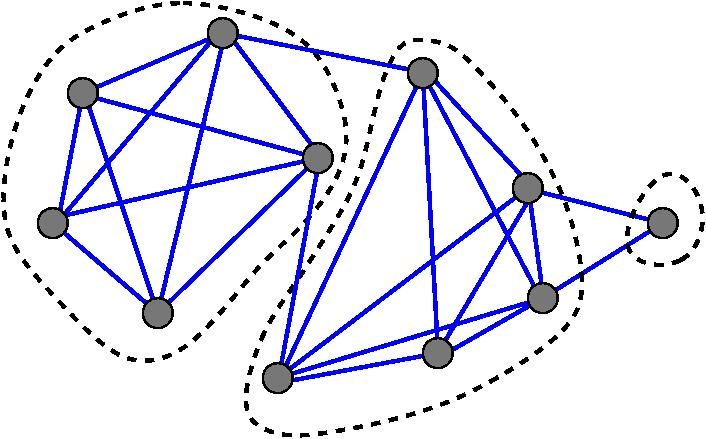 This image explains what is the strength of a graph. The set of nodes is decomposed into three parts, with four edges crossing the partitions. This example has a strength of two.